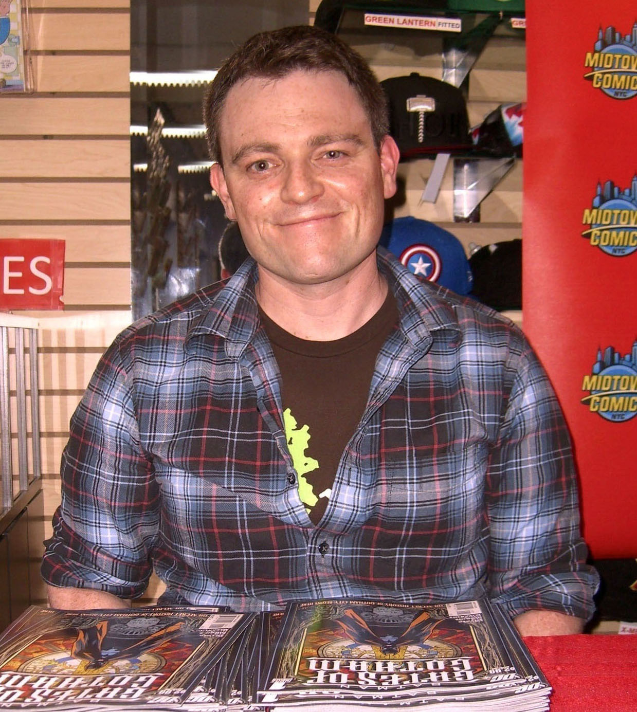 Short story and comics writer Scott Snyder at a signing for Batman: Gates of Gotham at Midtown Comics Downtown in Manhattan, May 19, 2011. This photo was created by Luigi Novi. It is not in the public domain, and use of this file outside of the licensing terms is a copyright violation.